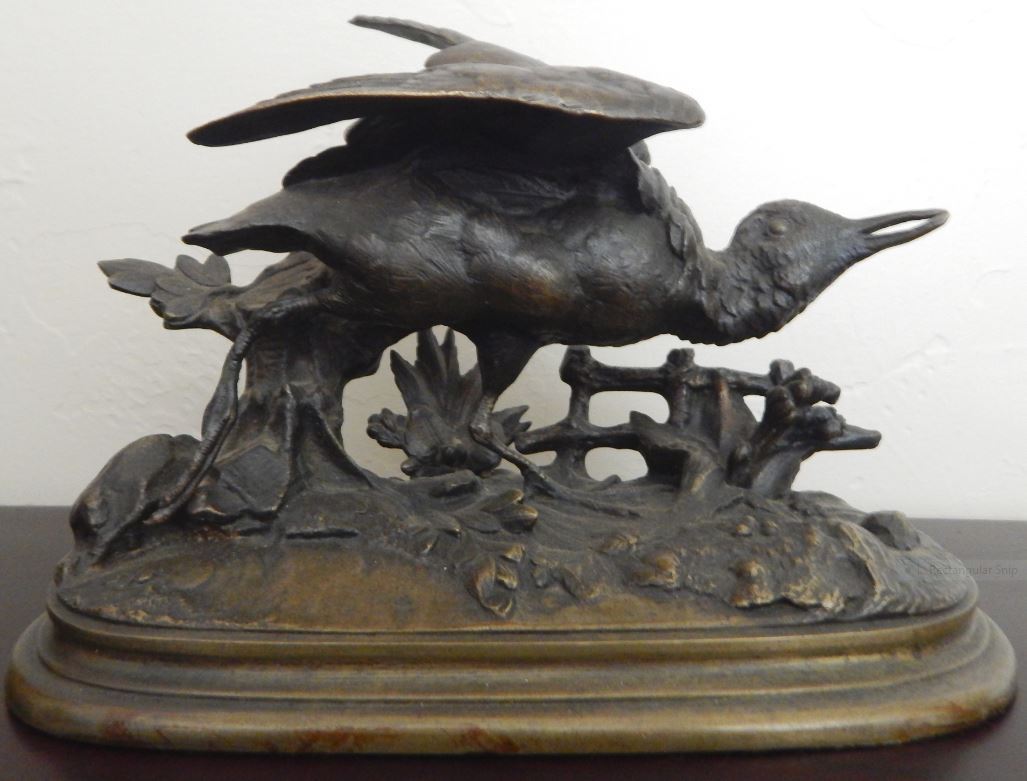 A circa 1870 bronze sculpture of a bird by Jules Moigniez.